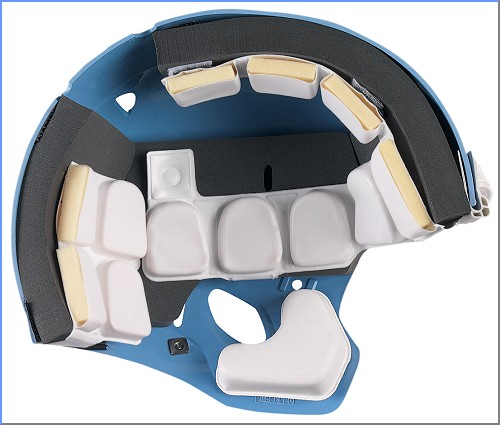 The inside of a youth football helmet